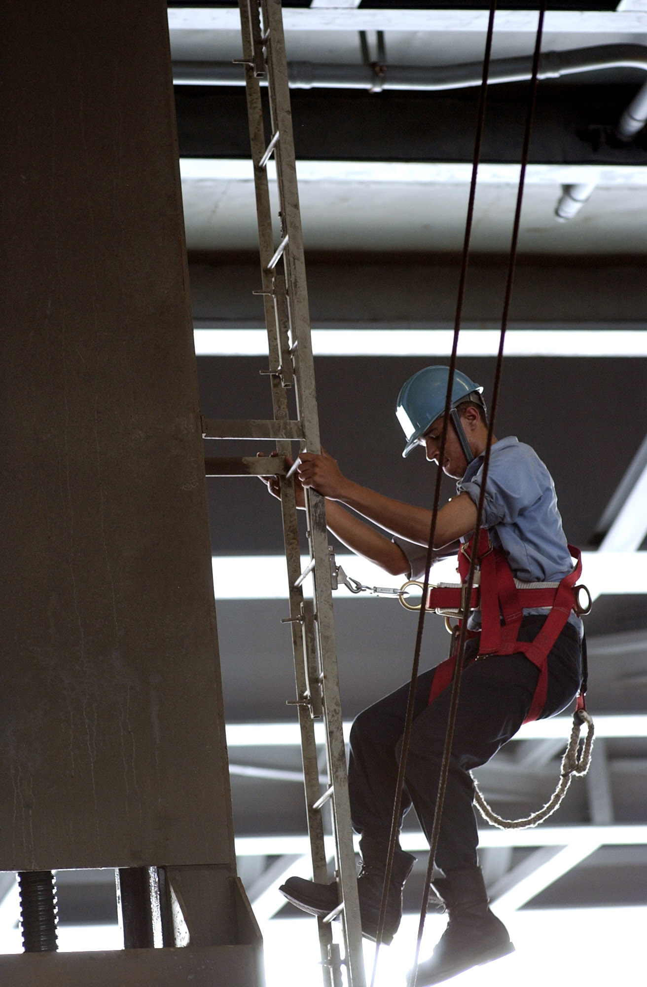 Pacific Ocean (June 14, 2006) - Seaman Derrick Allen from Cedar Hill, Texas, cautiously climbs back down the side of a sliding padeye after performing required maintenance aboard the Nimitz-class aircraft carrier USS Ronald Reagan (CVN 76). Ronald Reagan and embarked Carrier Air Wing One Four (CVW-14) are currently on a regularly scheduled deployment in support of the Global War on Terrorism as well as conducting Maritime Security Operations. U.S. Navy photo by Photographer's Mate 2nd Class Aaron Burden (RELEASED)